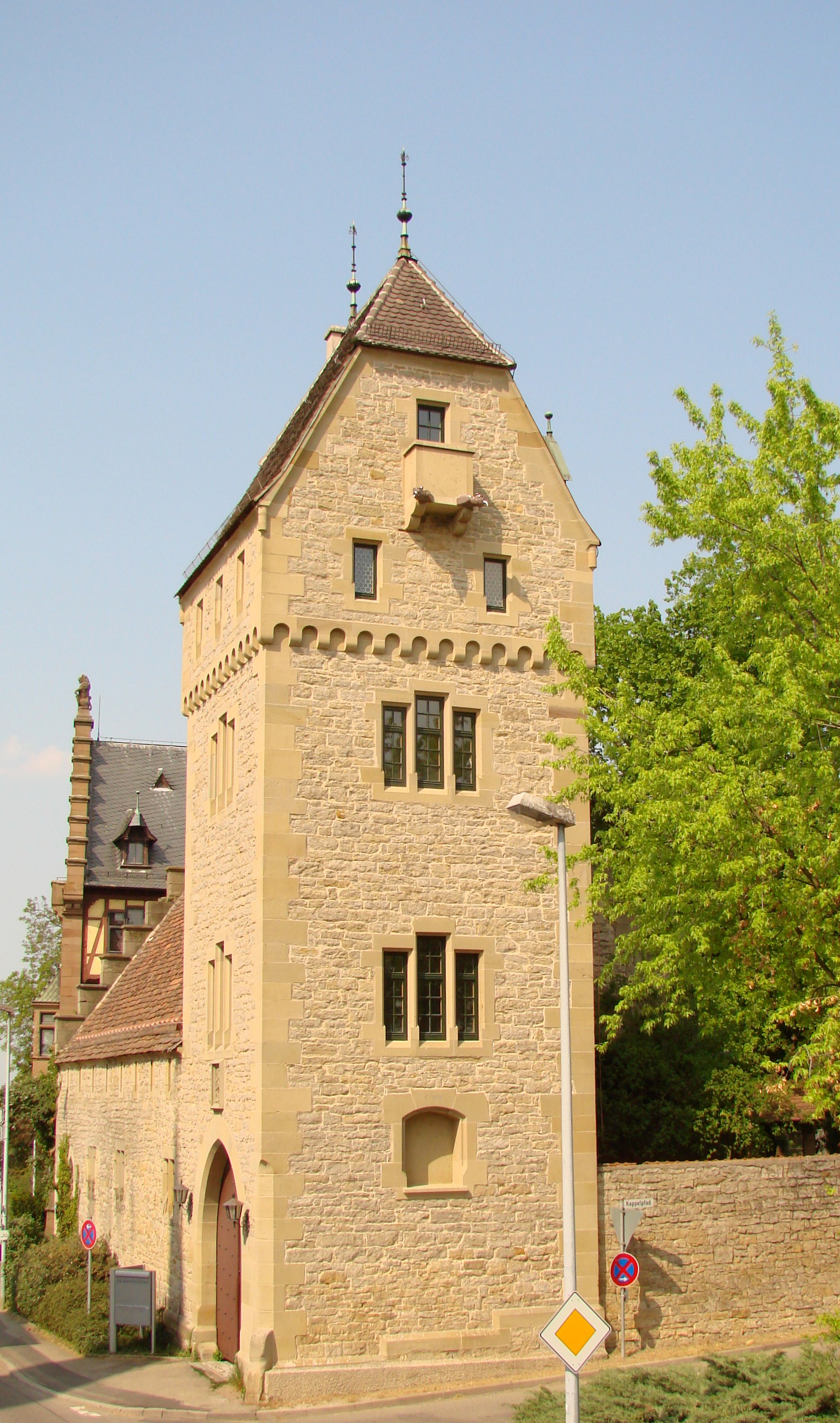 Eberdingen, castle in the community village of Nussdorf